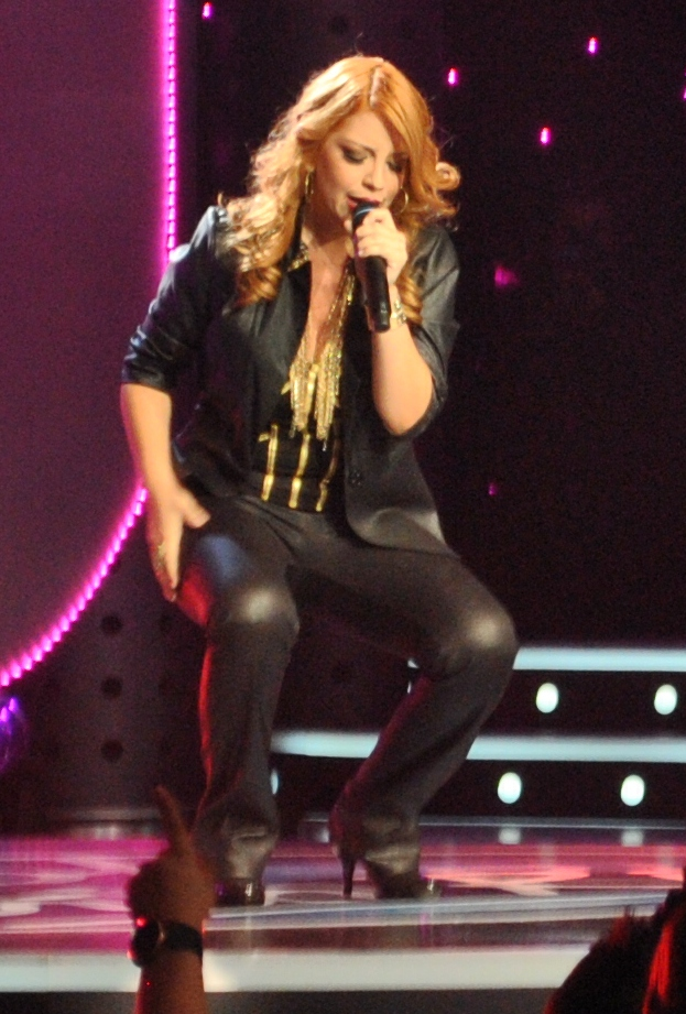 Mary Ann Acevedo singing "Todos Me Mira" at the Idol Puerto Rico's Second Live Concert!.